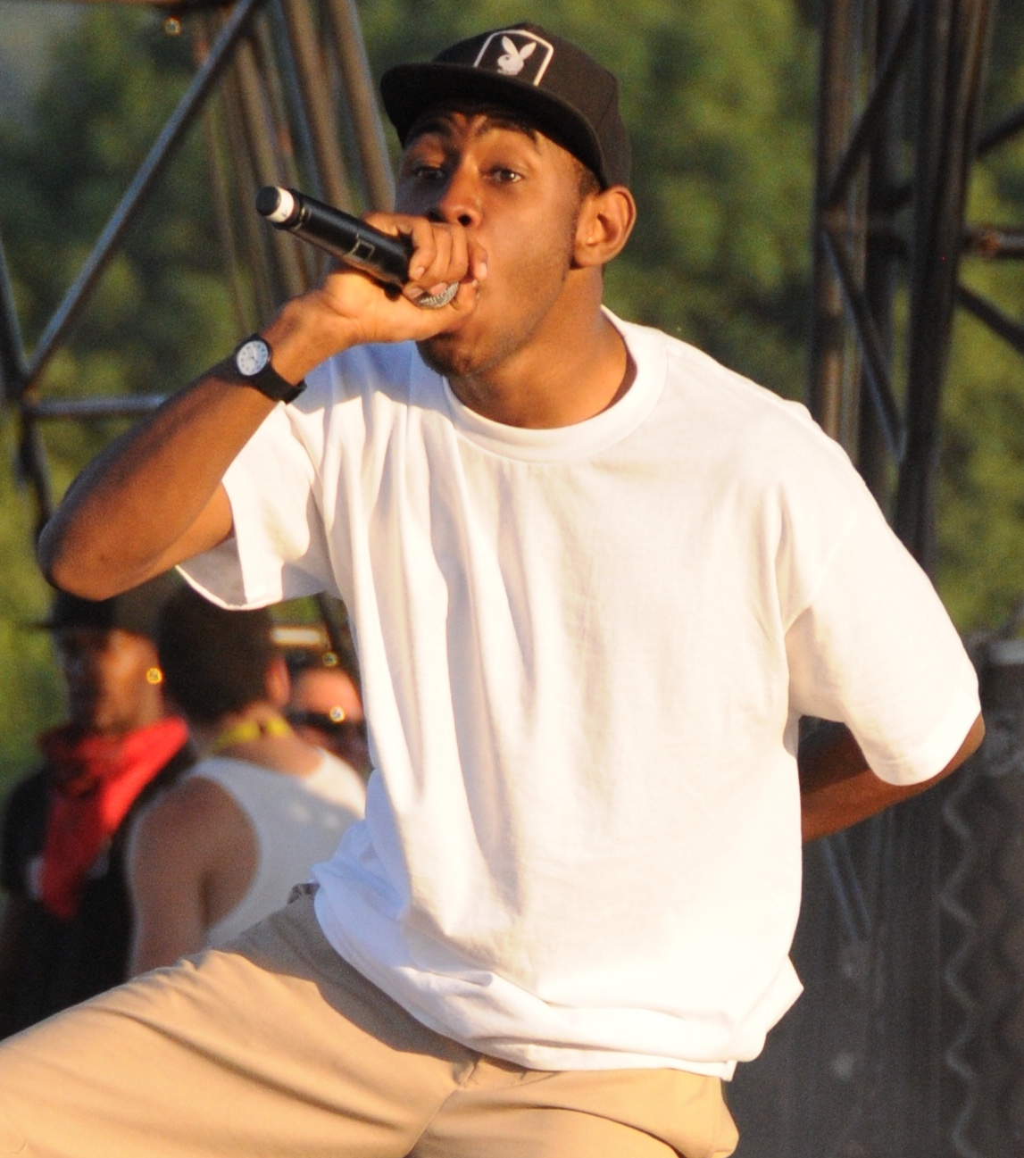 This photograph was taken with a Nikon D300 Personality rights warningAlthough this work is freely licensed or in the public domain, the person(s) shown may have rights that legally restrict certain re-uses unless those depicted consent to such uses. In these cases, a model release or other evidence of consent could protect you from infringement claims.